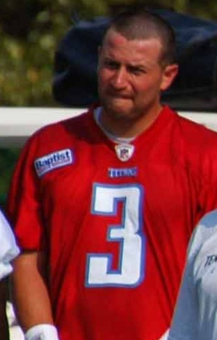 Tennessee Titans training camp in 2008. Quarterbacks Vince Young (#10) and Ingle Martin (#3) are on the sidelines.